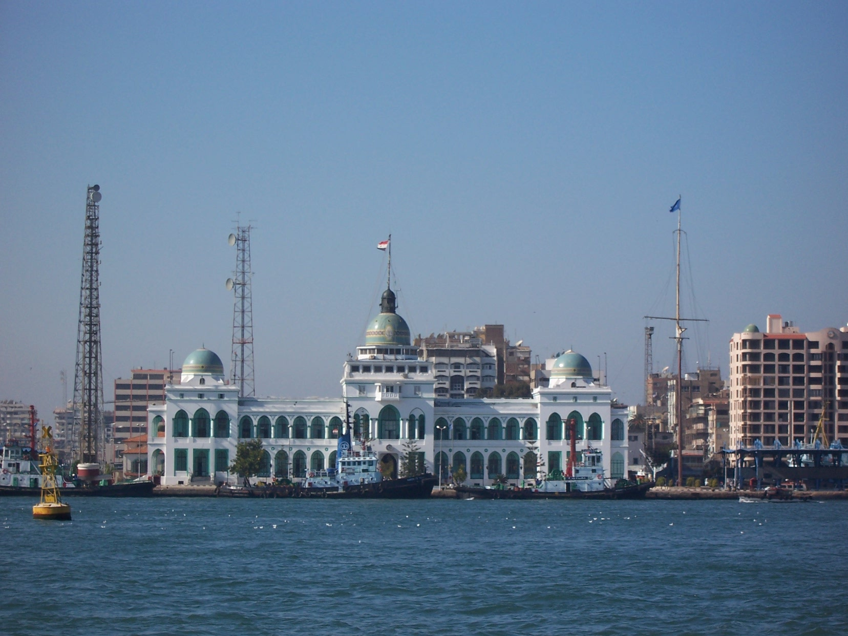 Photos from winter Egypt trip 2007 Jan-Feb